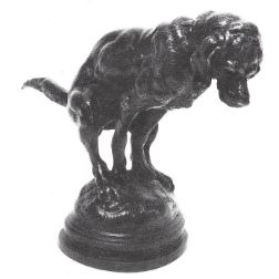 A circa 1870 bronze sculpture by French master sculptor Paul-Edouard Delabrierre of a dog defecating.